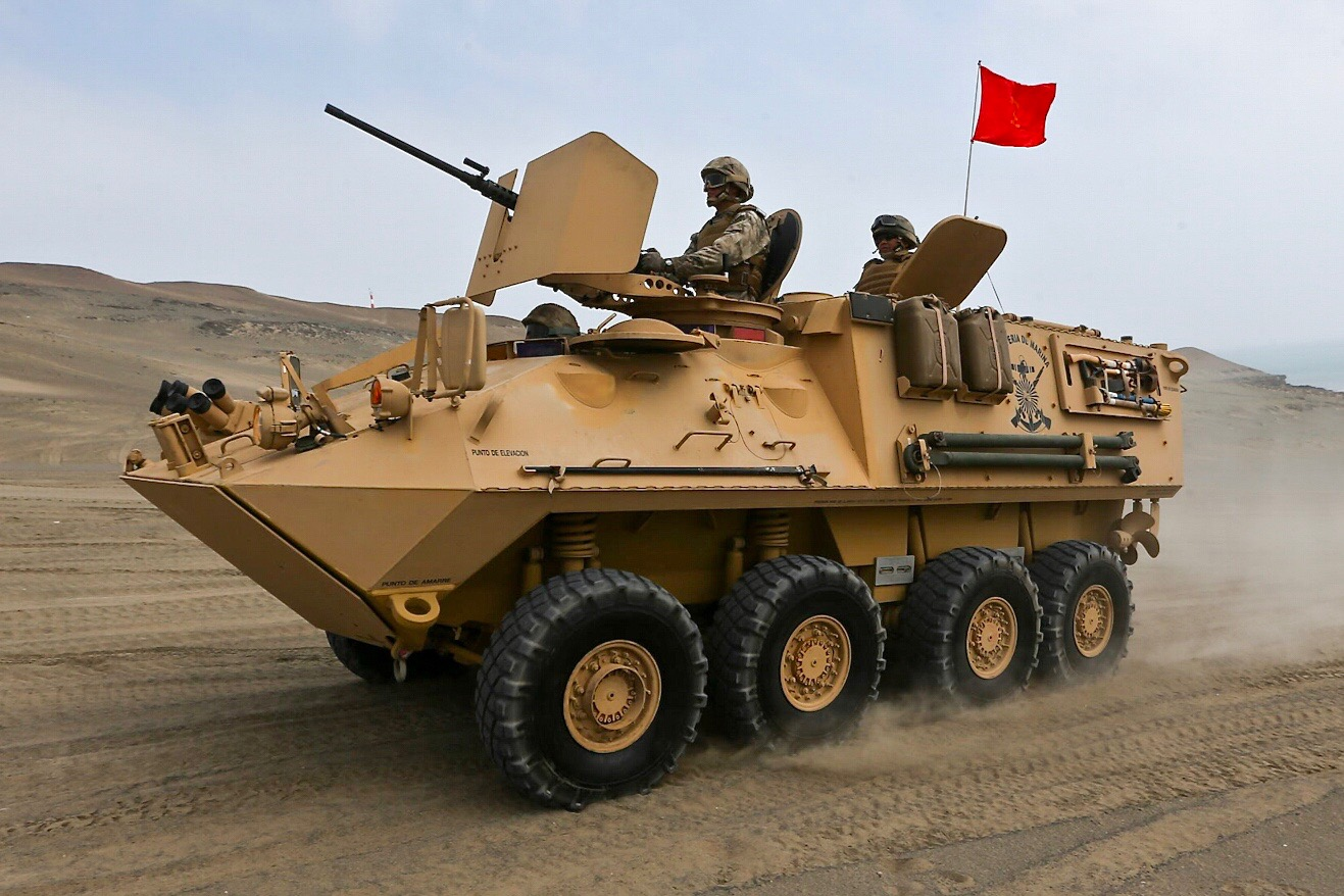 LAV-II of the Peruvian Marines during a July 2017 exercise.